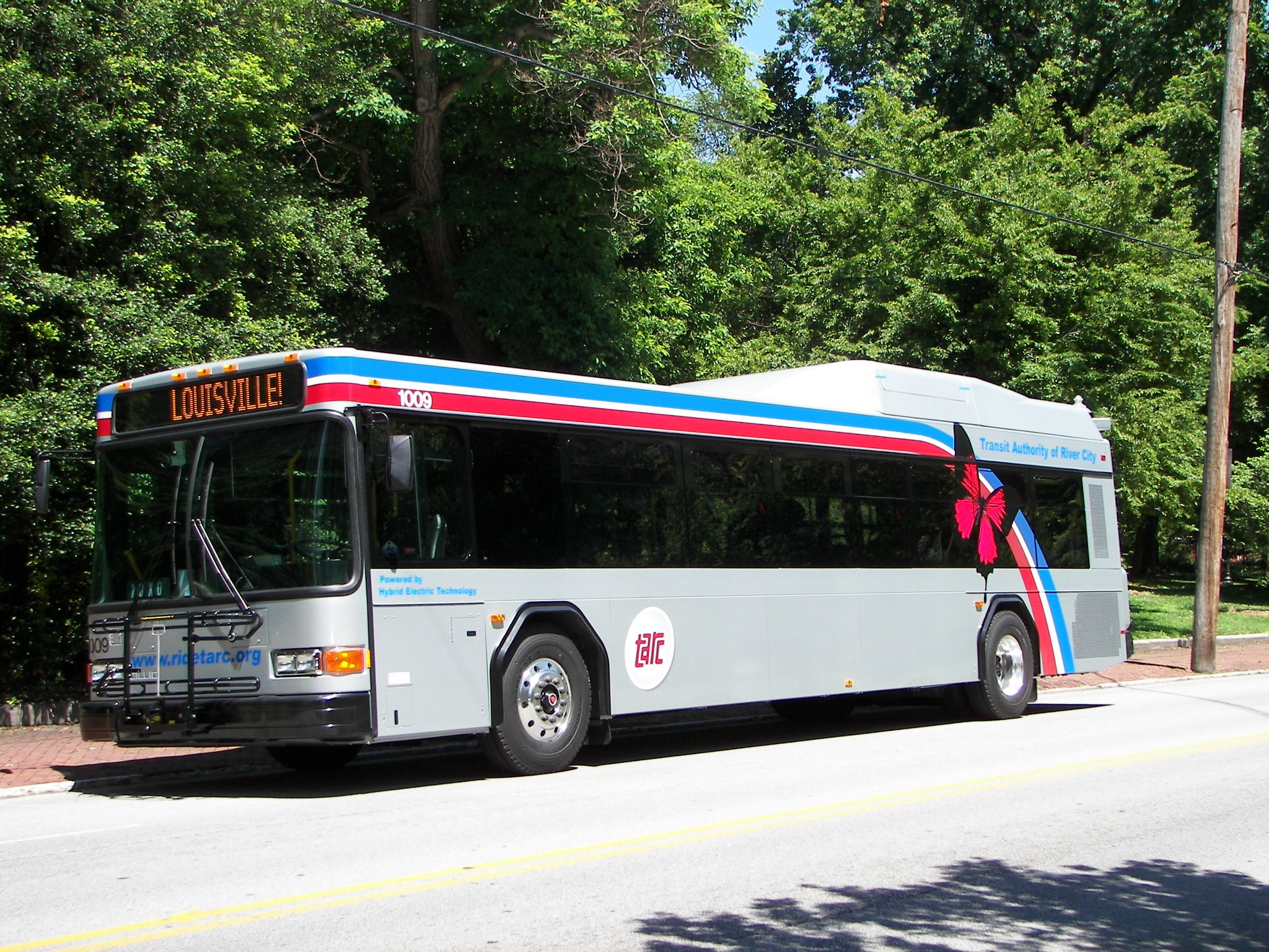 Gillig 1009